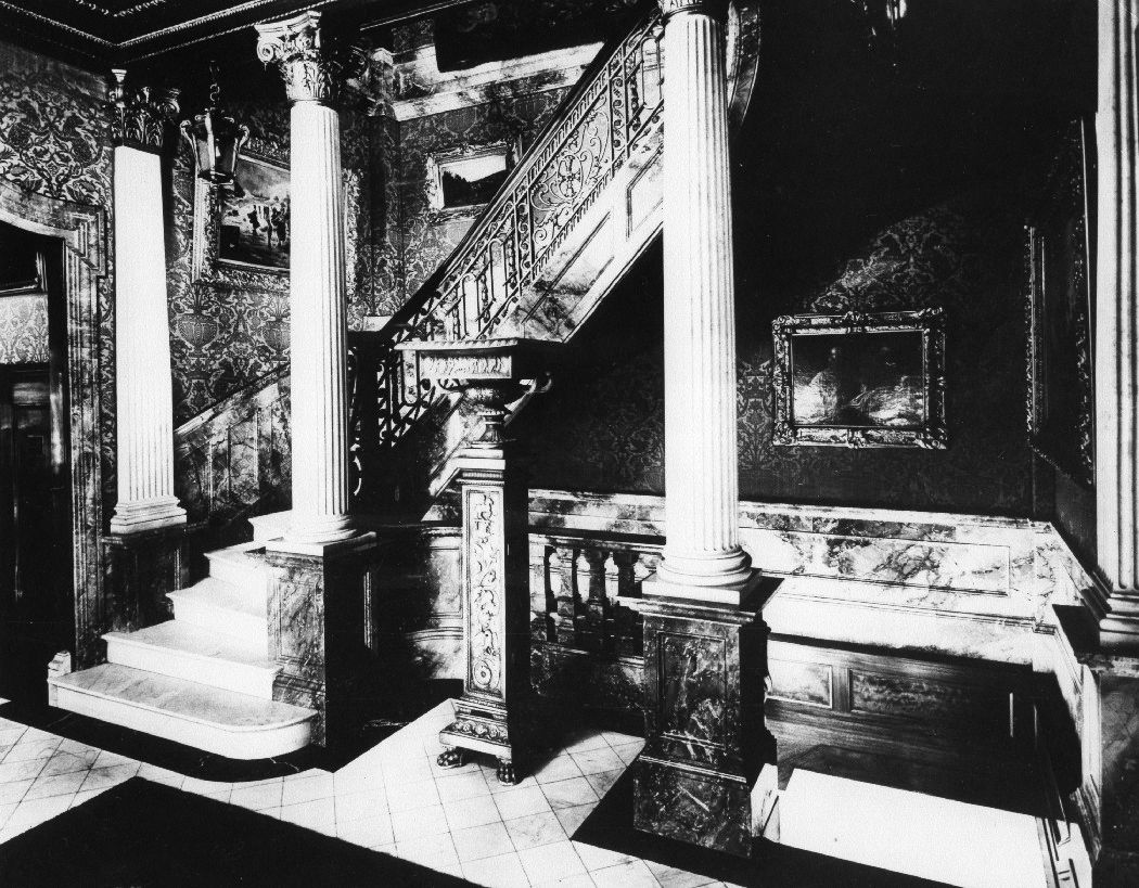 Entrance Hall (circa 1930), Oscar Dufresne House (Château Dufresne), 4040 Sherbrooke Street East, Montreal, Quebec, Canada.